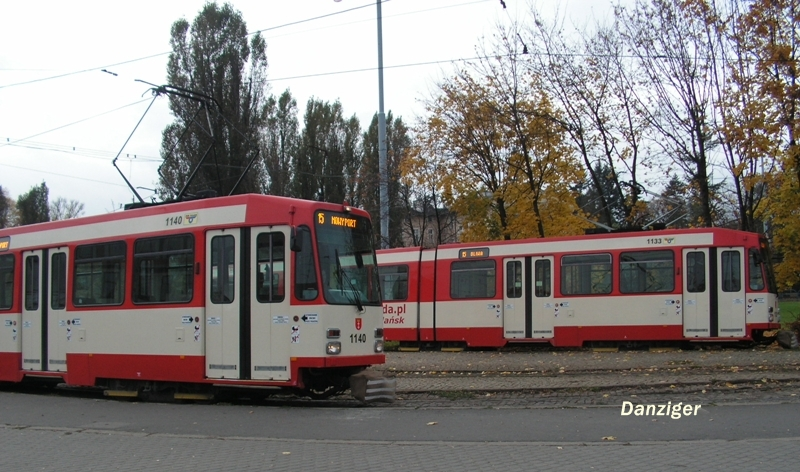 Düwag N8C trams in Gdańsk, Poland.